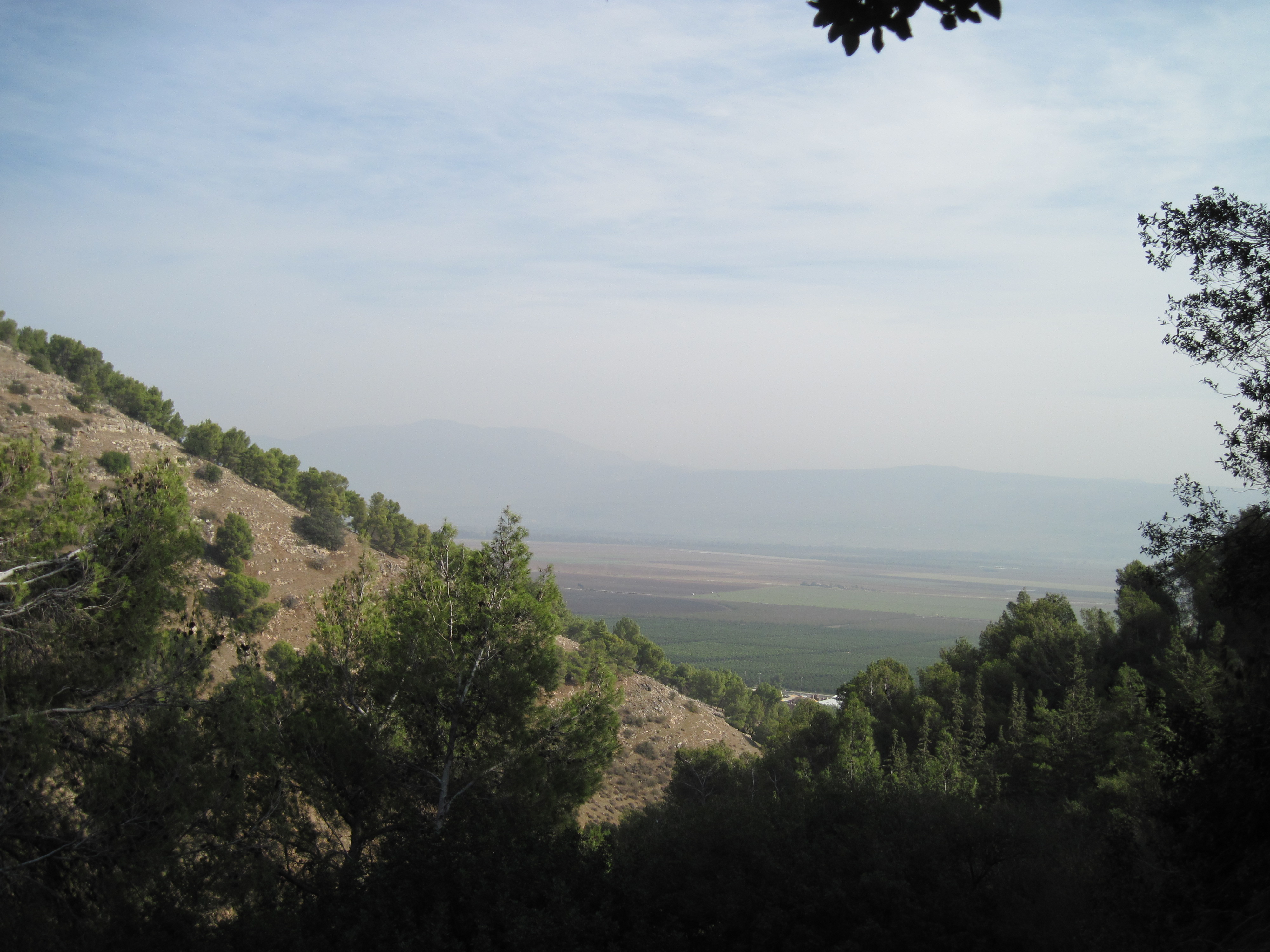 Kedesh stream, View to Hula Valley